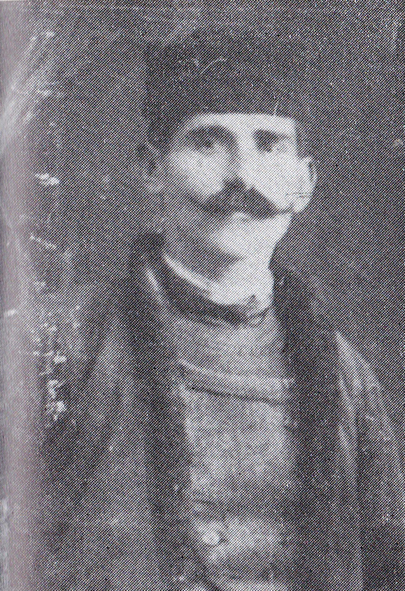 bulgarian revolutionary